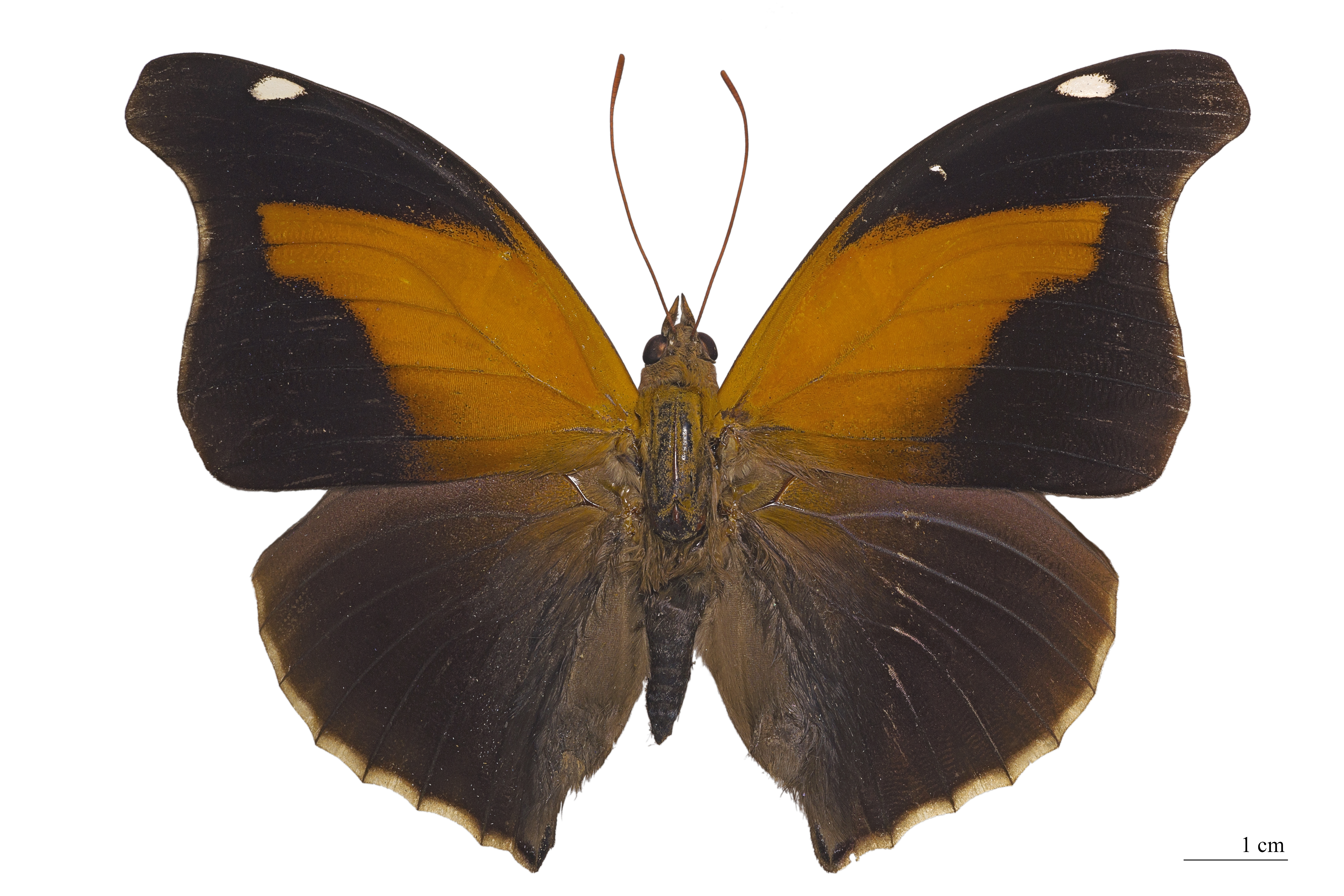 Orion - Male specimen - Dorsal side Locality: Cali Colombia